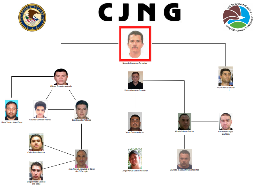 Leadership chart of the Jalisco New Generation Cartel (CJNG) in 2018.